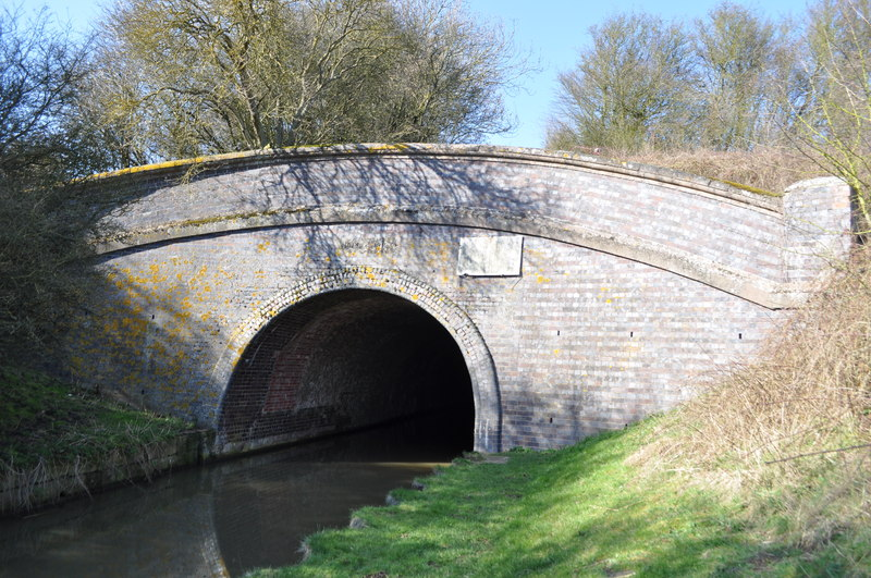 Grand Union Canal - Saddington Tunnel, near to Saddington, Leicestershire, Great Britain. The south eastern portal of the 880 yard Saddington tunnel. Opened April 1797. SP6593 : Grand Union Canal - Saddington Tunnel